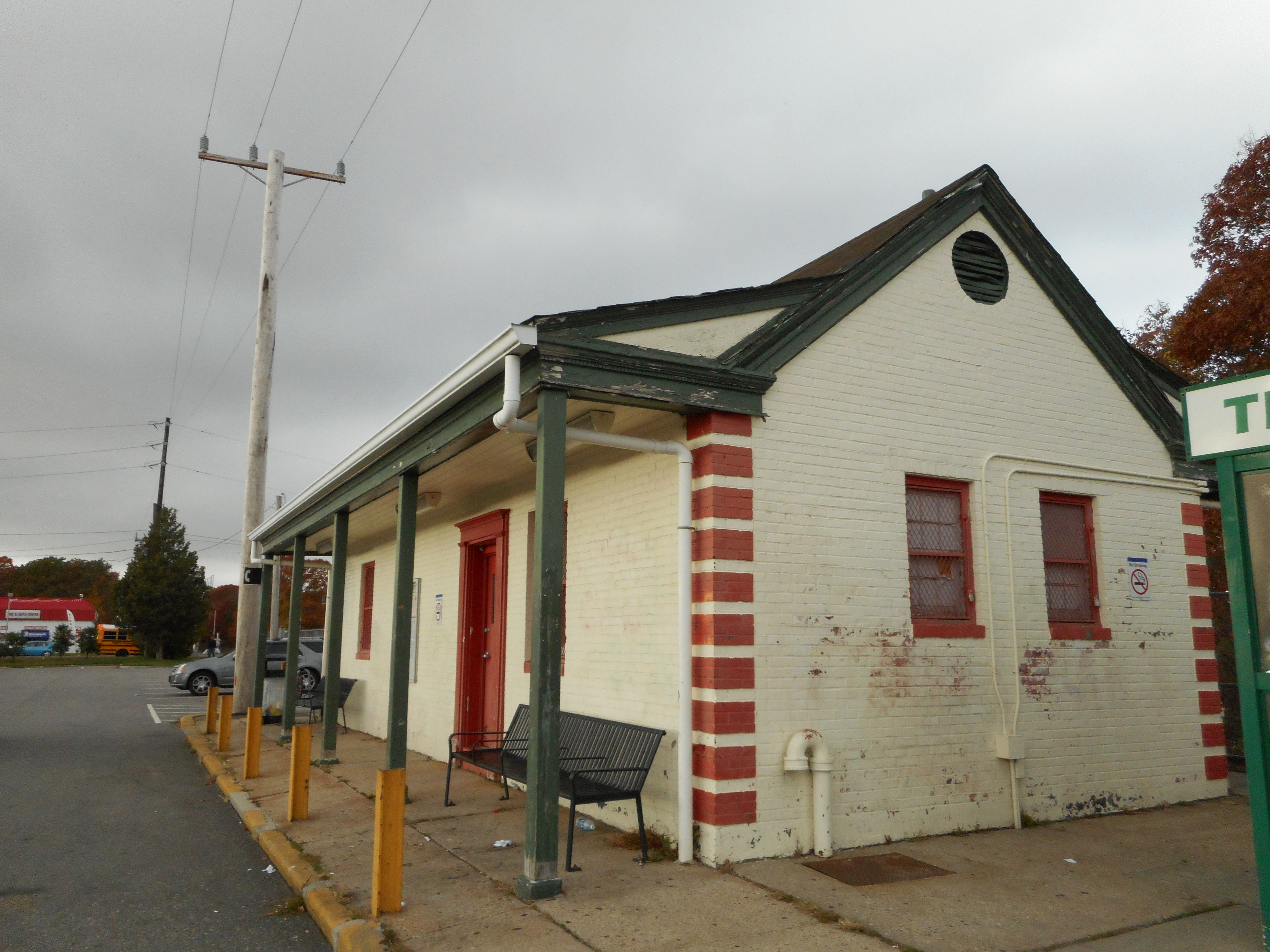 East side of the Mastic-Shirley Long Island Rail Road station house.